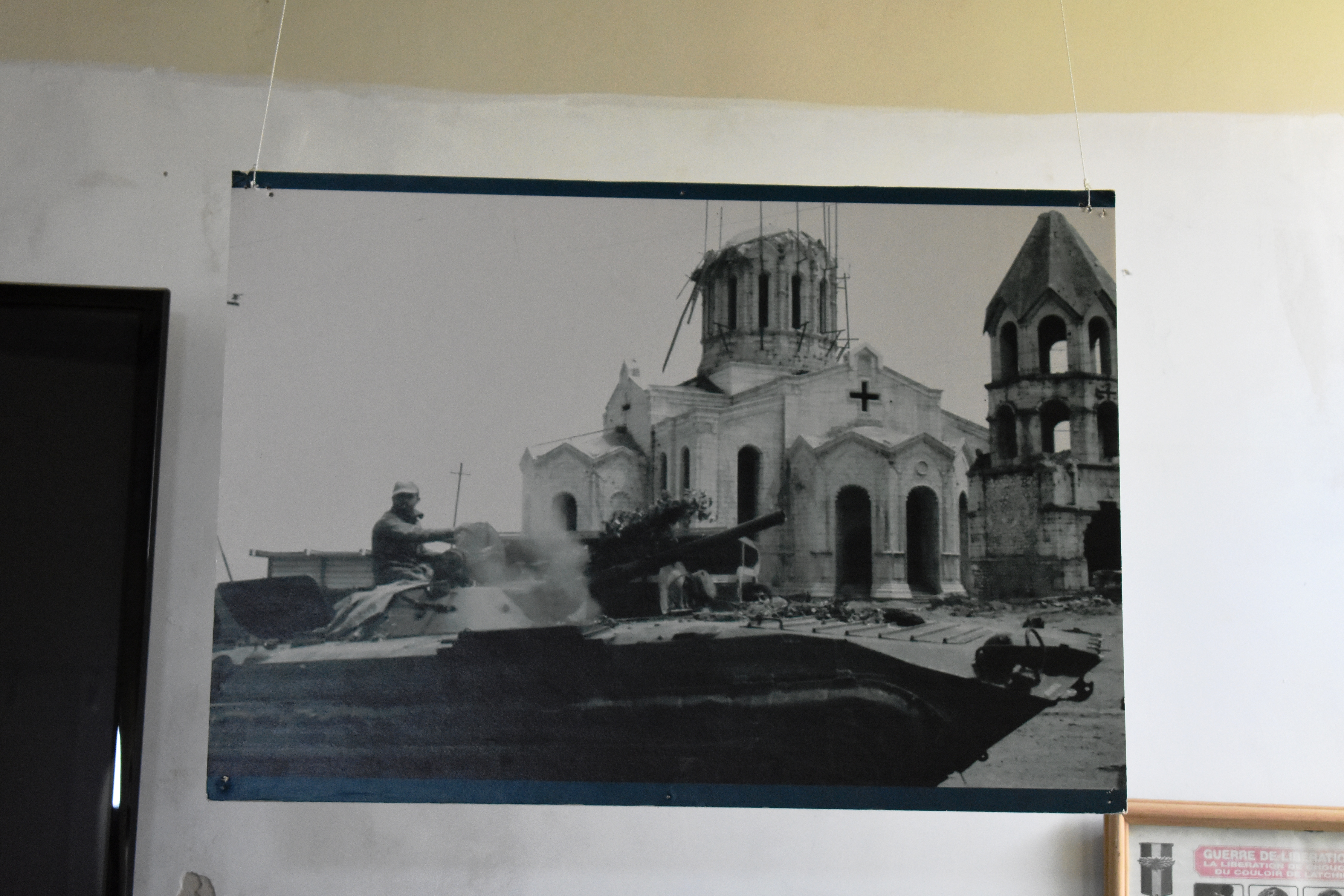 photo of Ghazanchetsots Cathedral at the Shushi city museum showing the damaged cathedral in the aftermath of the battle that took place in May 1992